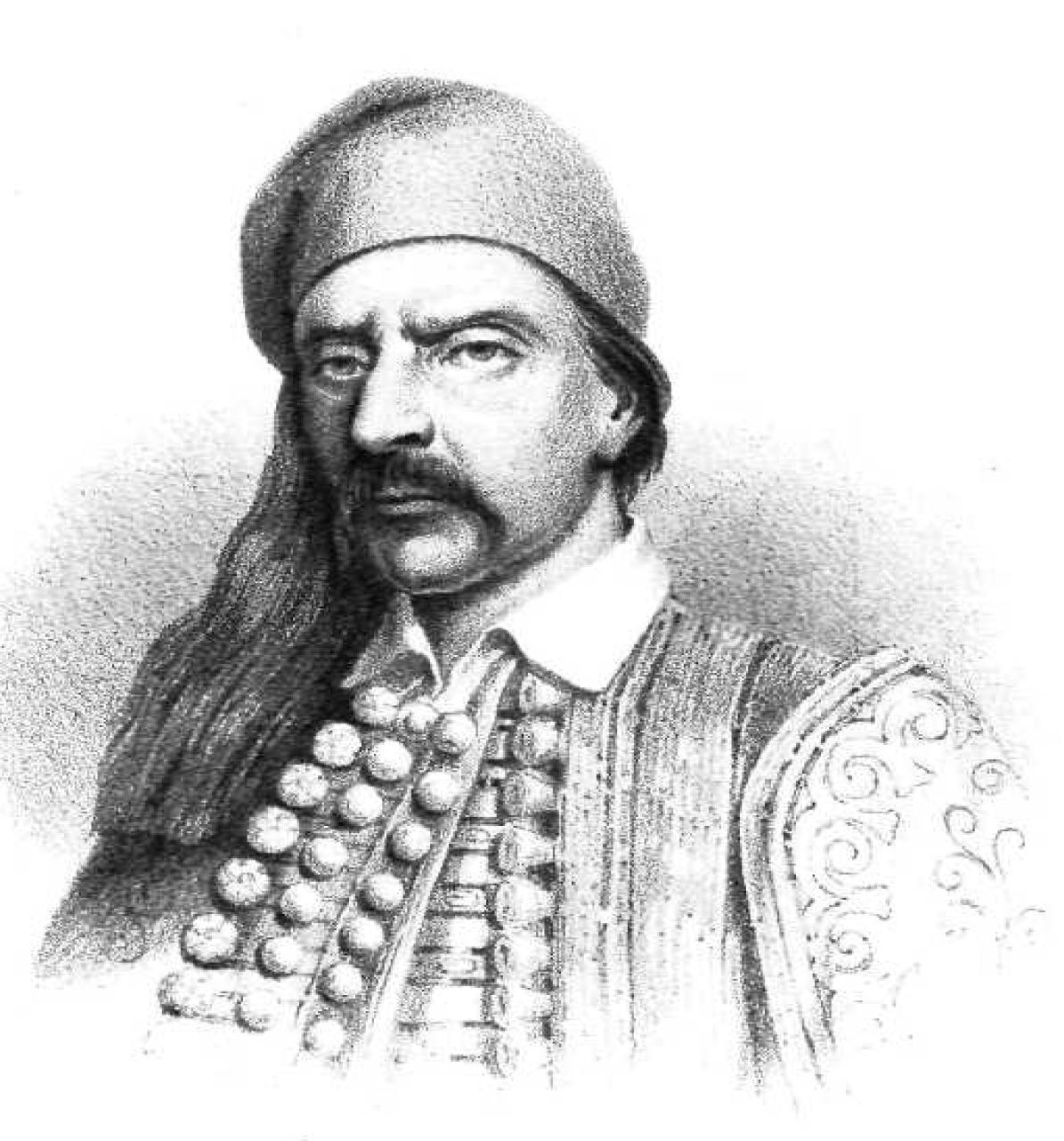 Christy Ntagkovits, (Beogrand 1783 - Athens 1853) Serbian Greek independence fighter and politician in Greece